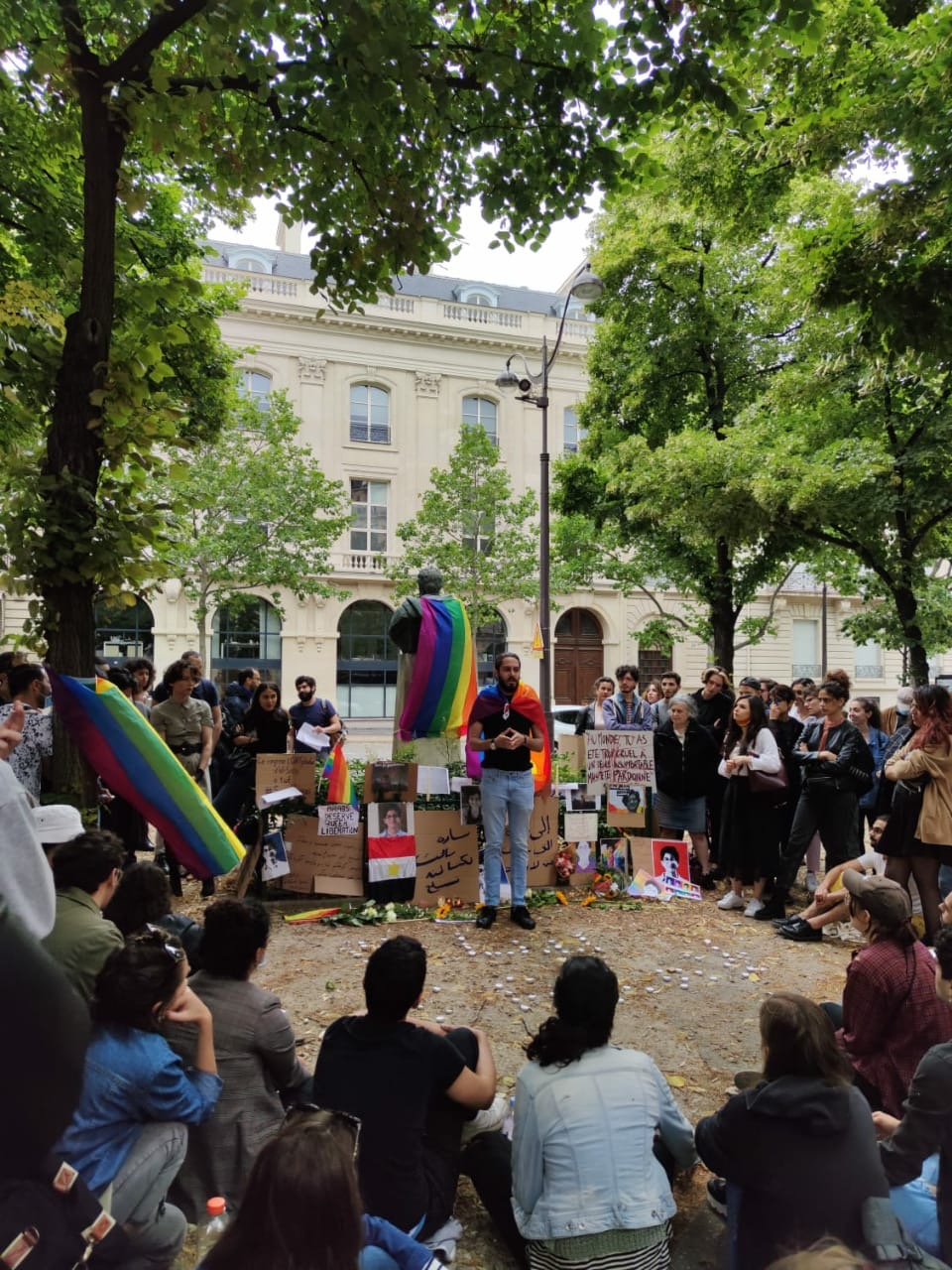 Vigils commemorating Sarah Hagazi, Paris 21 june 2020